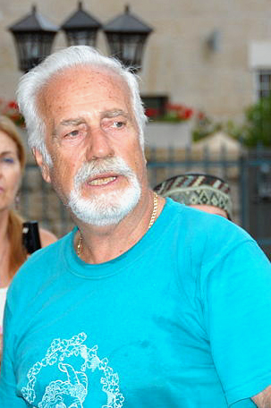 Tzaferis Vassilios, archaeologist of the ancient Palestine area and Greek Orthodox scholar